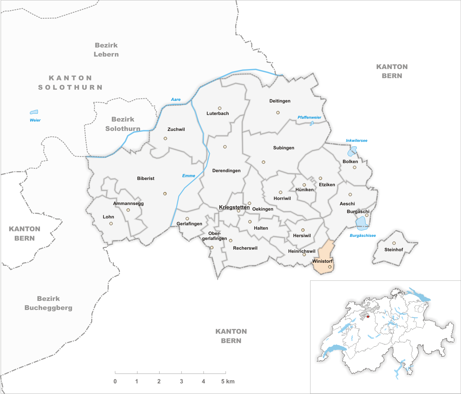 Municipality Winistorf Artist: Tschubby